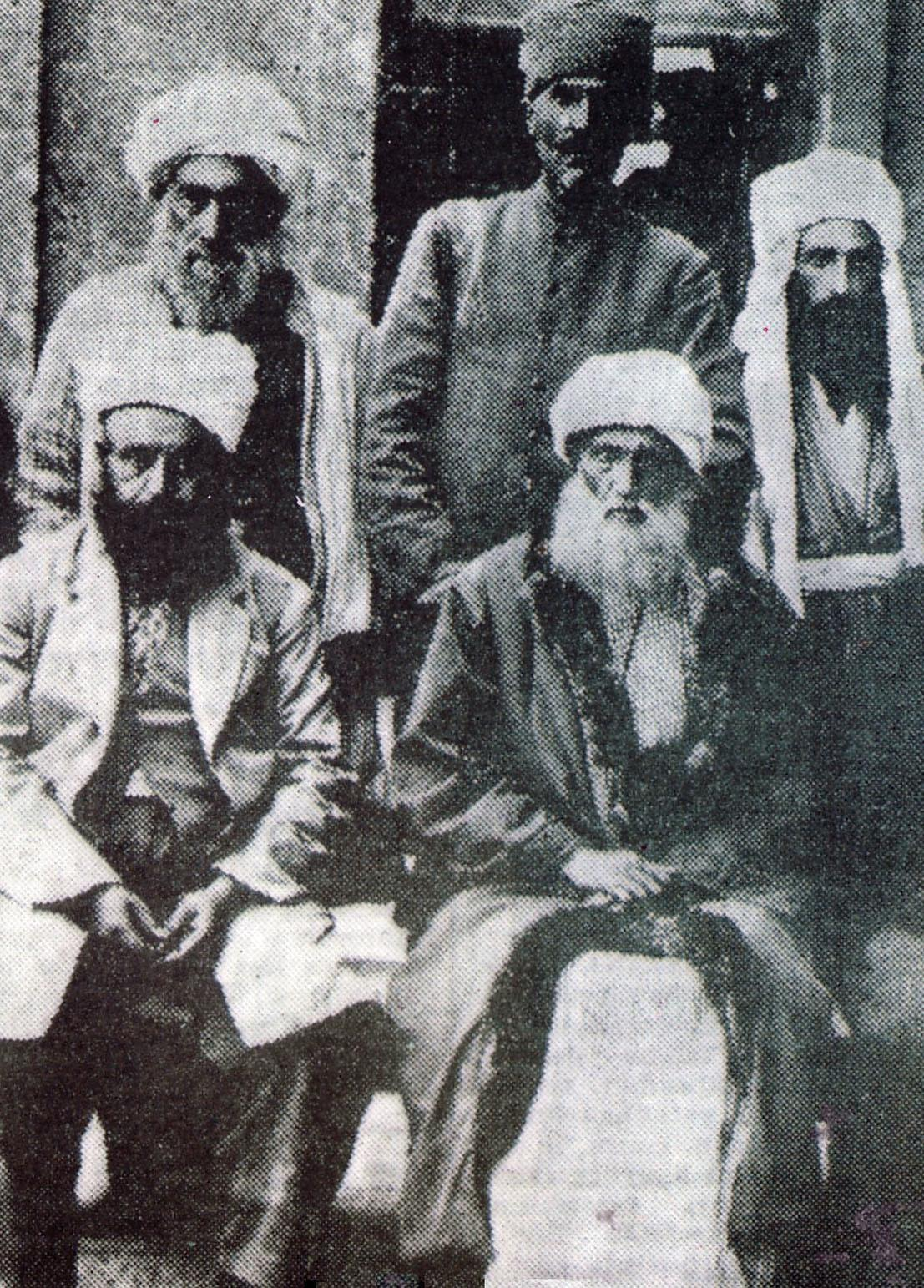 Front row, left to right: Shiekh Sherif, Sheikh Said, back row: Sheikh Hamid, Major Kasim (Kasım Ataç), Sheikh Abdullah.Kurdî: Ji aliyê çepê de (jor): Şêx Hamîd, Bînbaşî Qasim Beg (Kasım Ataç), Şêx Ebdilahê MalekanJi aliyê çepê de (jêr): Şêx Şerîfê Kelaxsî, Şêx Seîd (1925)